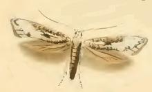 Stainton’s Natural History of the Tineina (1855–1873): Prays oleae